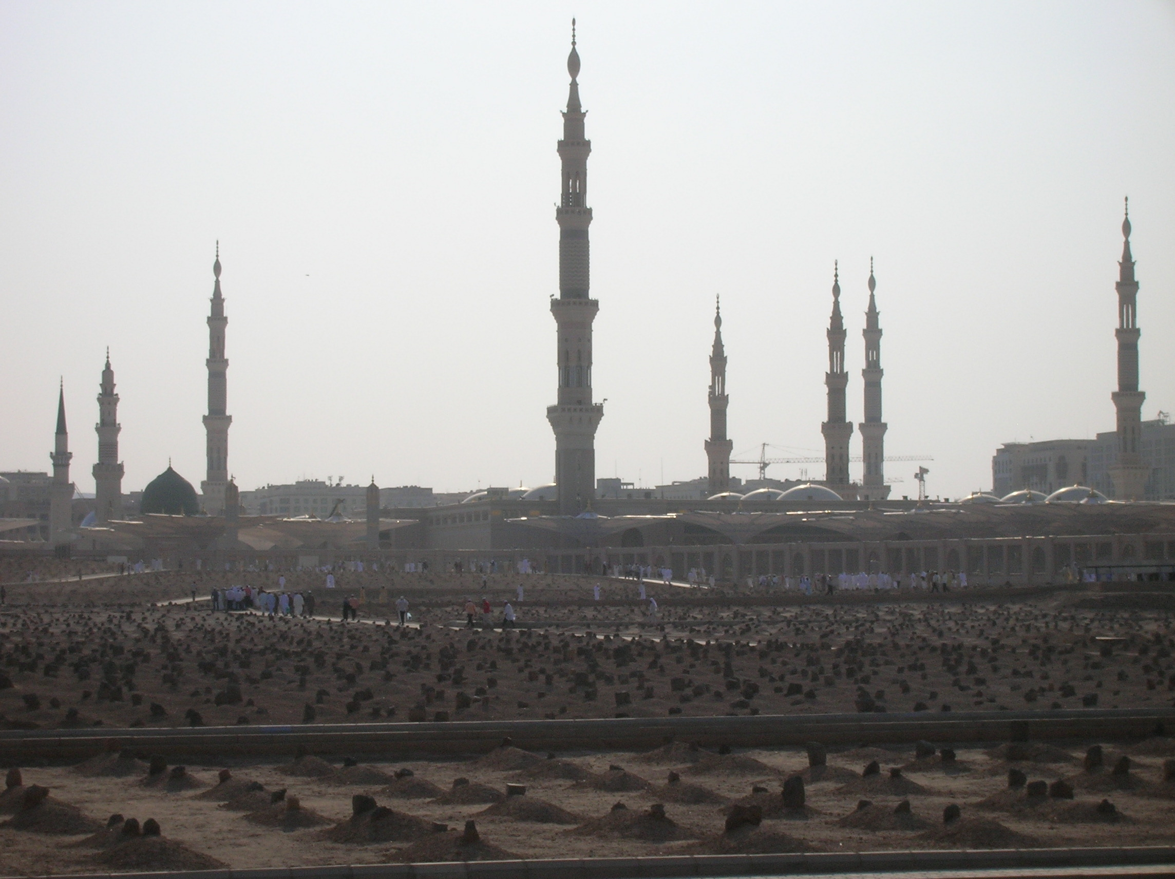 Background: Masjid al-Nabawi. Foreground: Baqi' Cemetery.